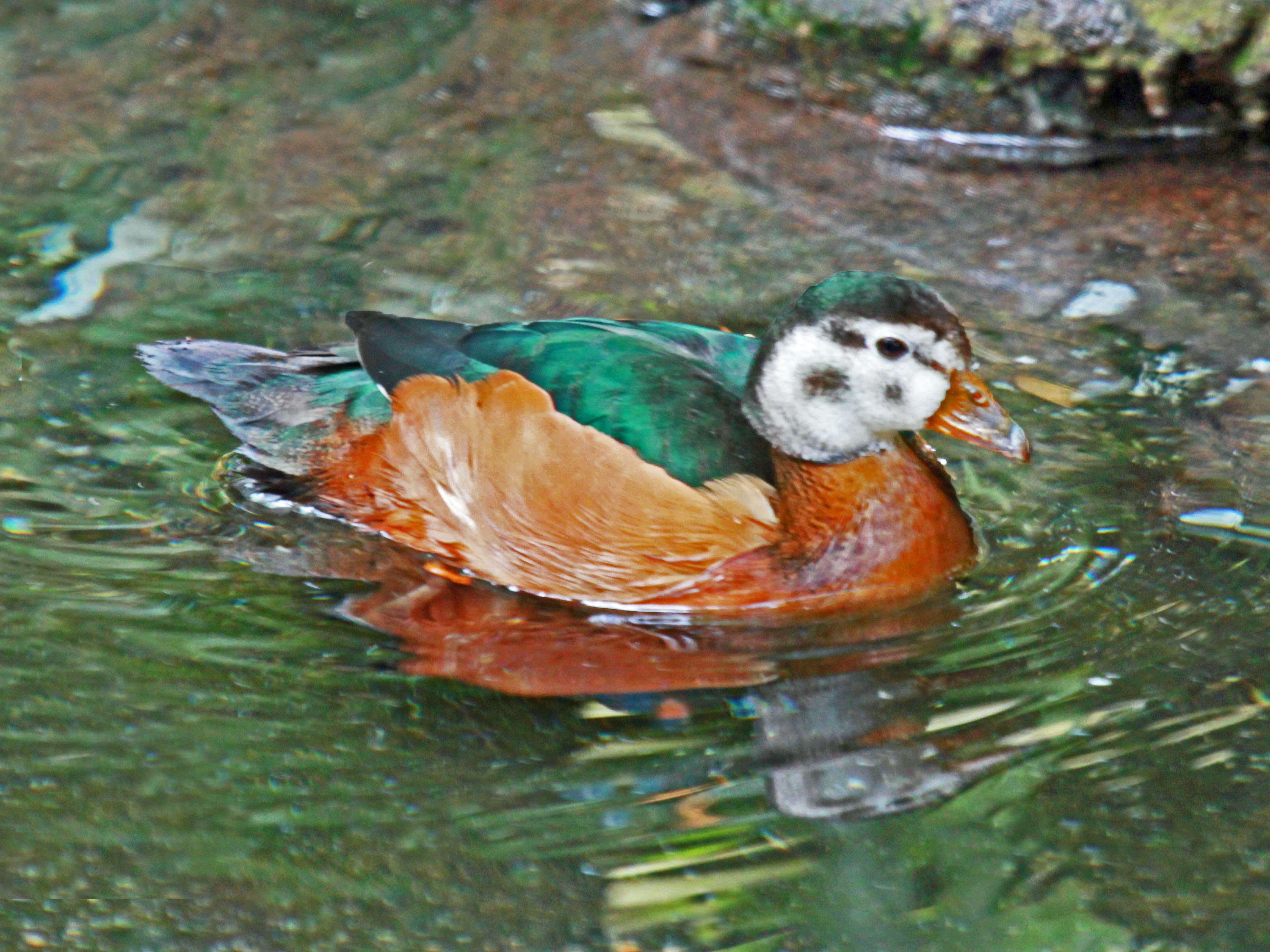 Female African Pygmy Goose (Nettapus auritus) at the North Carolina Zoo, North Carolina